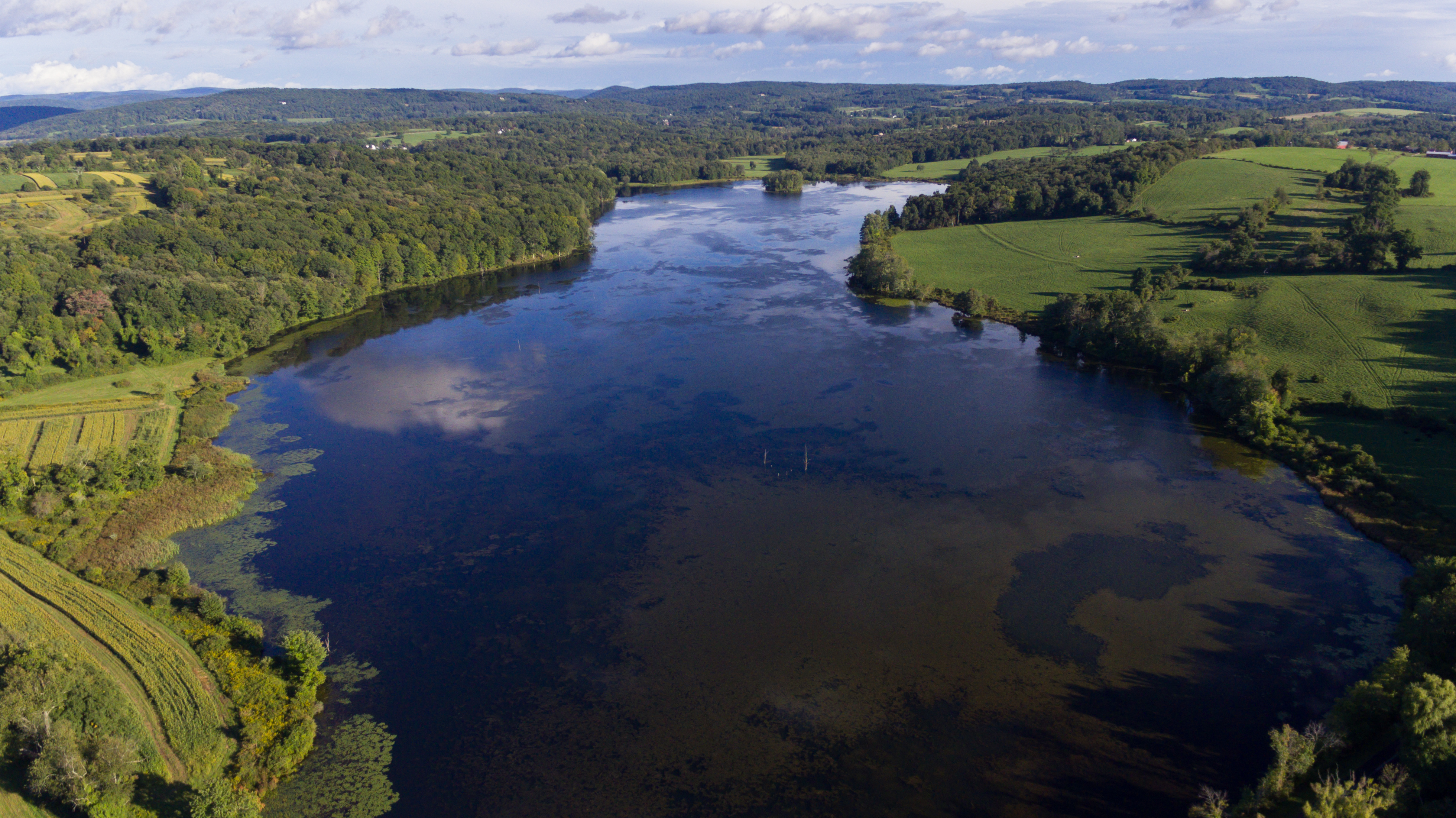 Overview looking east of Bontecou Lake near Millbrook, New York, as seen in the afternoon light from a drone.